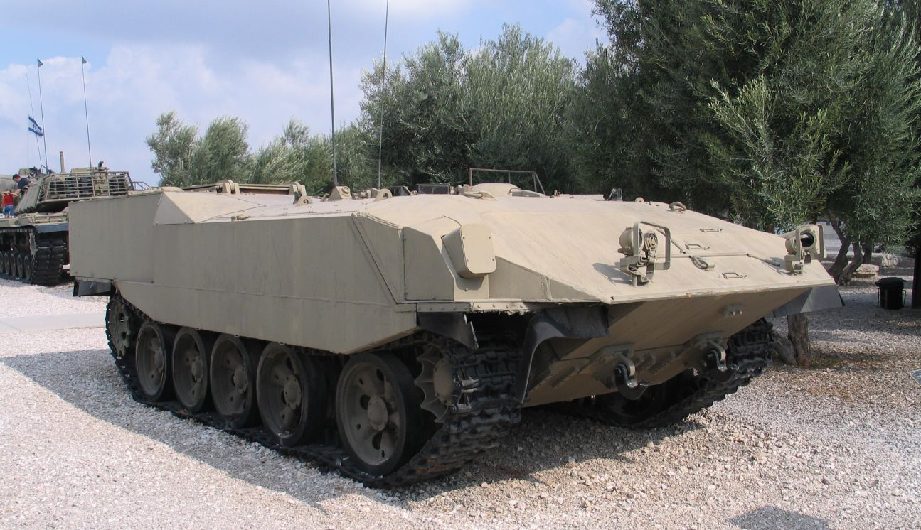 Description: Achzarit IFV in Yad la-Shiryon Museum, Israel. 2005. Source: Photo by me, User:Bukvoed.